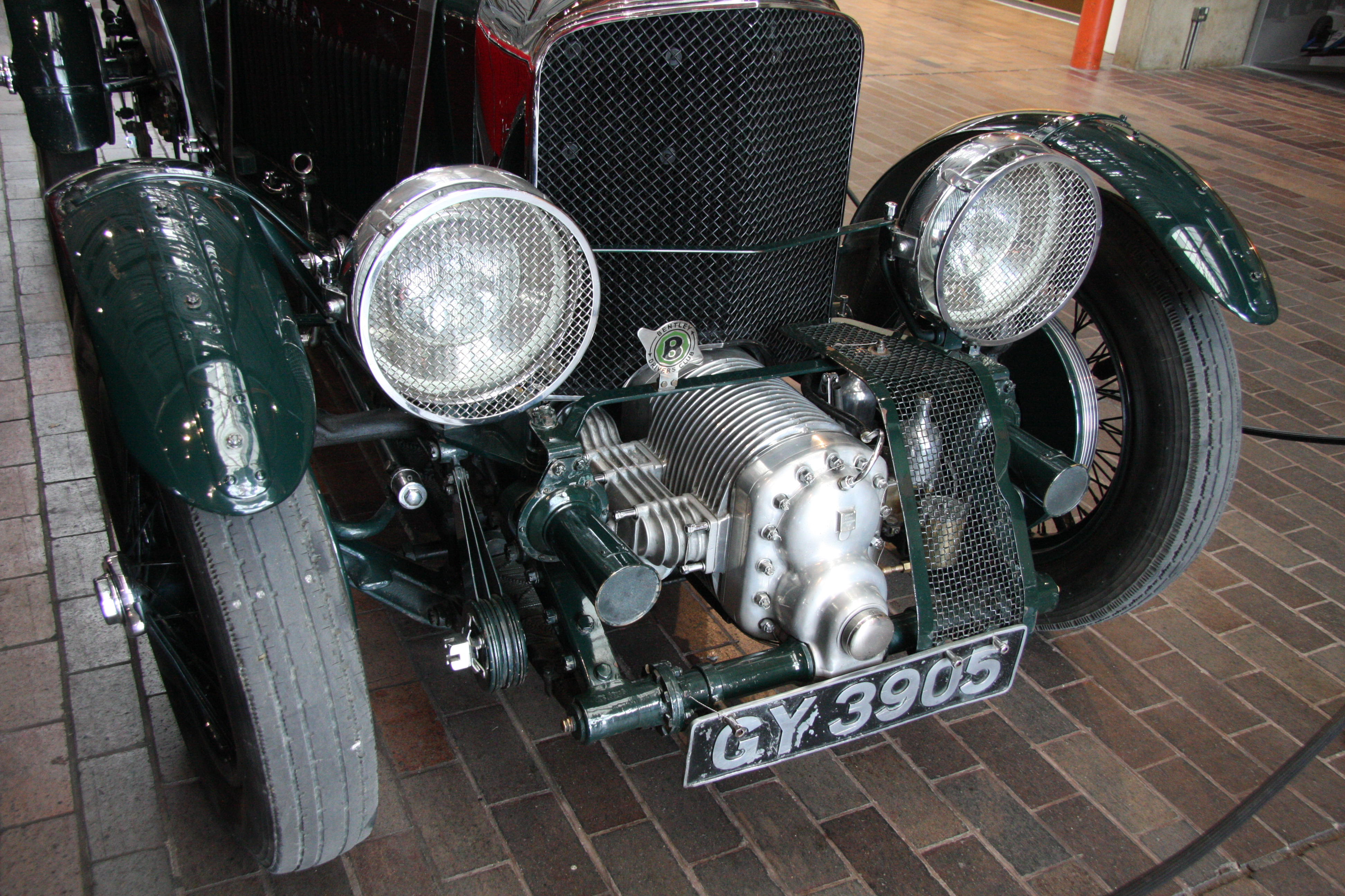 Roots supercharger of a 1929 1931 "Blower" Bentley. Chassis MS3946 Engine MS3948 Reg GY 3905 delivered August 1931